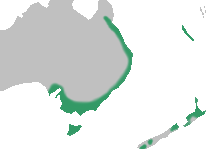 Acianthus distribution map (including Townsonia).